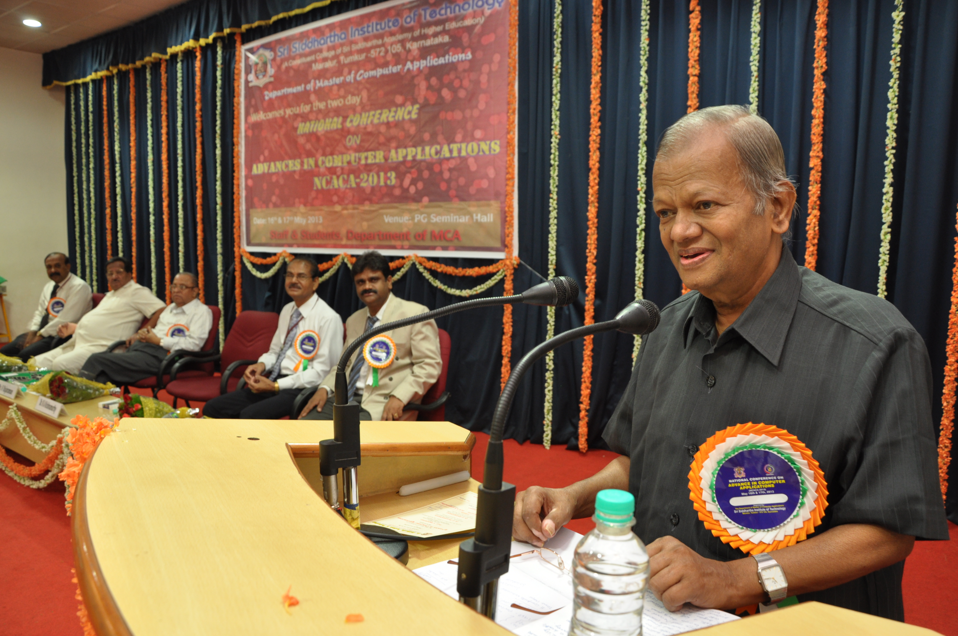 Speech at National Conference on Advances in Computer ApplicationsNCACA 2013 Sri Siddhartha Institute of Technology, Tumkur